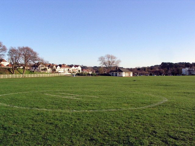 Whitecliff Park, Poole Whitecliff Park is an area of open land beside Parkstone Bay. The 'H' painted on the grass indicates the usual place used by Air Ambulance and Coastguard helicopters when transferring casualties to Poole General Hospital or 'bent' divers to the nearby recompression chamber.